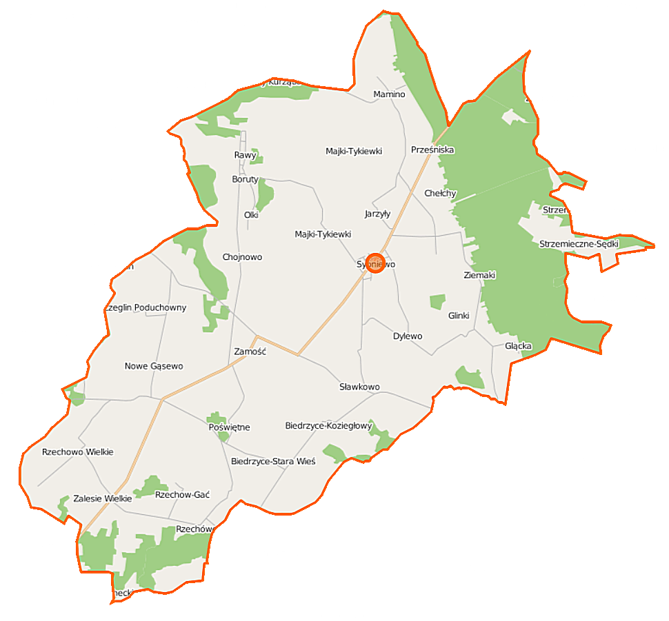 Map of Gmina Sypniewo, Poland This map of Sypniewo (gmina) was created from OpenStreetMap project data, collected by the community. This map may be incomplete, and may contain errors. Don't rely solely on it for navigation. Border coordinates53.069521.1593←↕→21.425452.9203